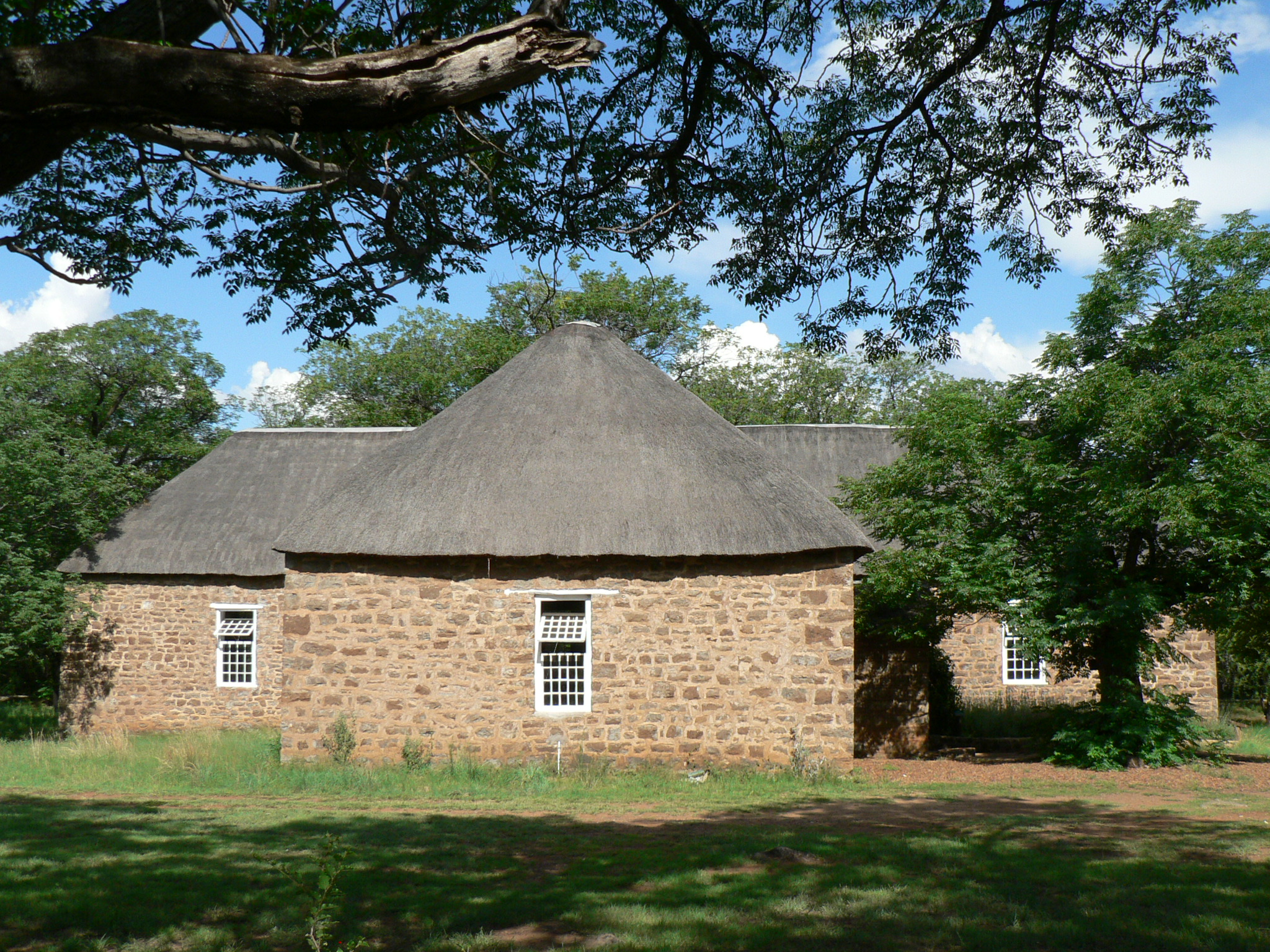 This media shows a South African Protected Site with SAHRA file reference 9/2/055/0003-001.